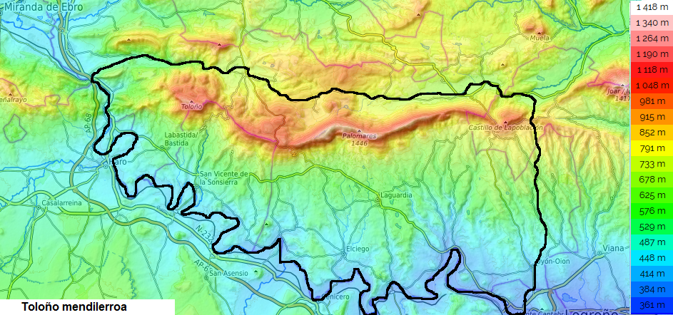 Topographic map showing the Toloño Range.